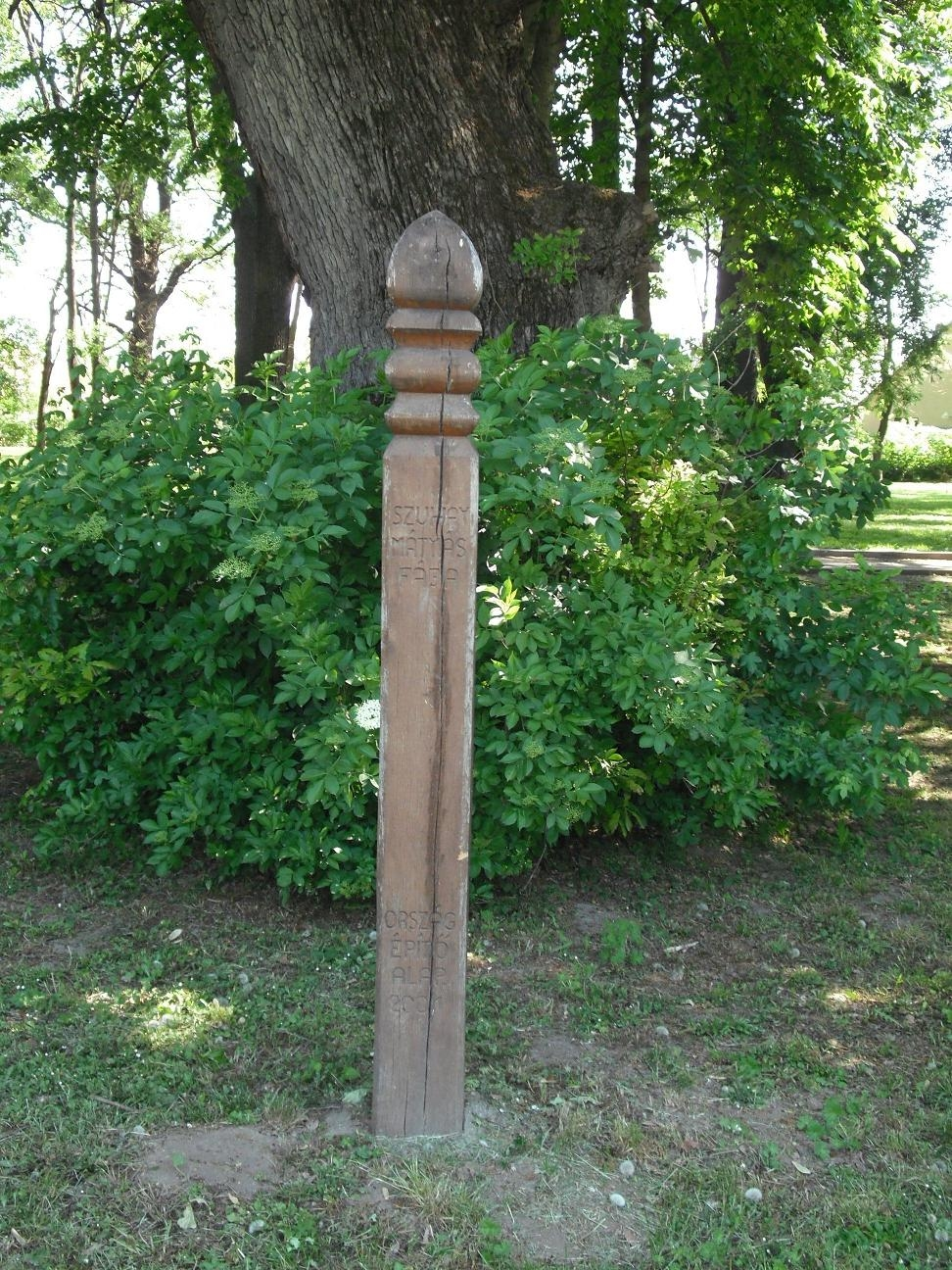 tree of Mátyás Szuhay